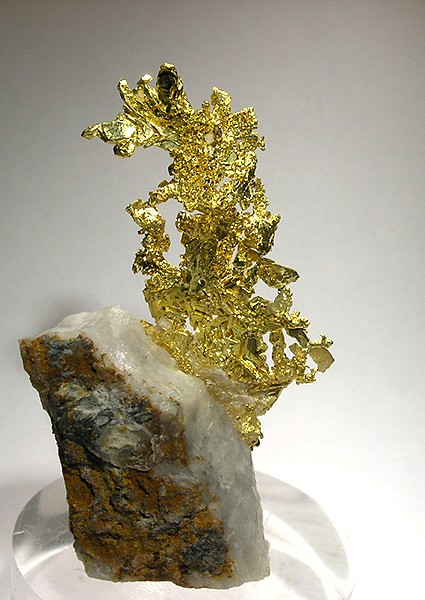 Gold, Quartz Locality: Eagle's Nest Mine (Mystery Wind Mine), Placer County, California, USA (Locality at ) A SUPERB arborescent gold specimen with killer aesthetics, beautiful from either side. The crystals are VERY FINE and bright, of top color, and feature flattened ocohedra to almost 1 cm. The specimen is a very choice example for the size and price range, and would be a dramatic presence in any collection. As gold is notoriously difficult to photograph, it is BETTER IN PERSON. 7.1 x 4.1 x 1 cm